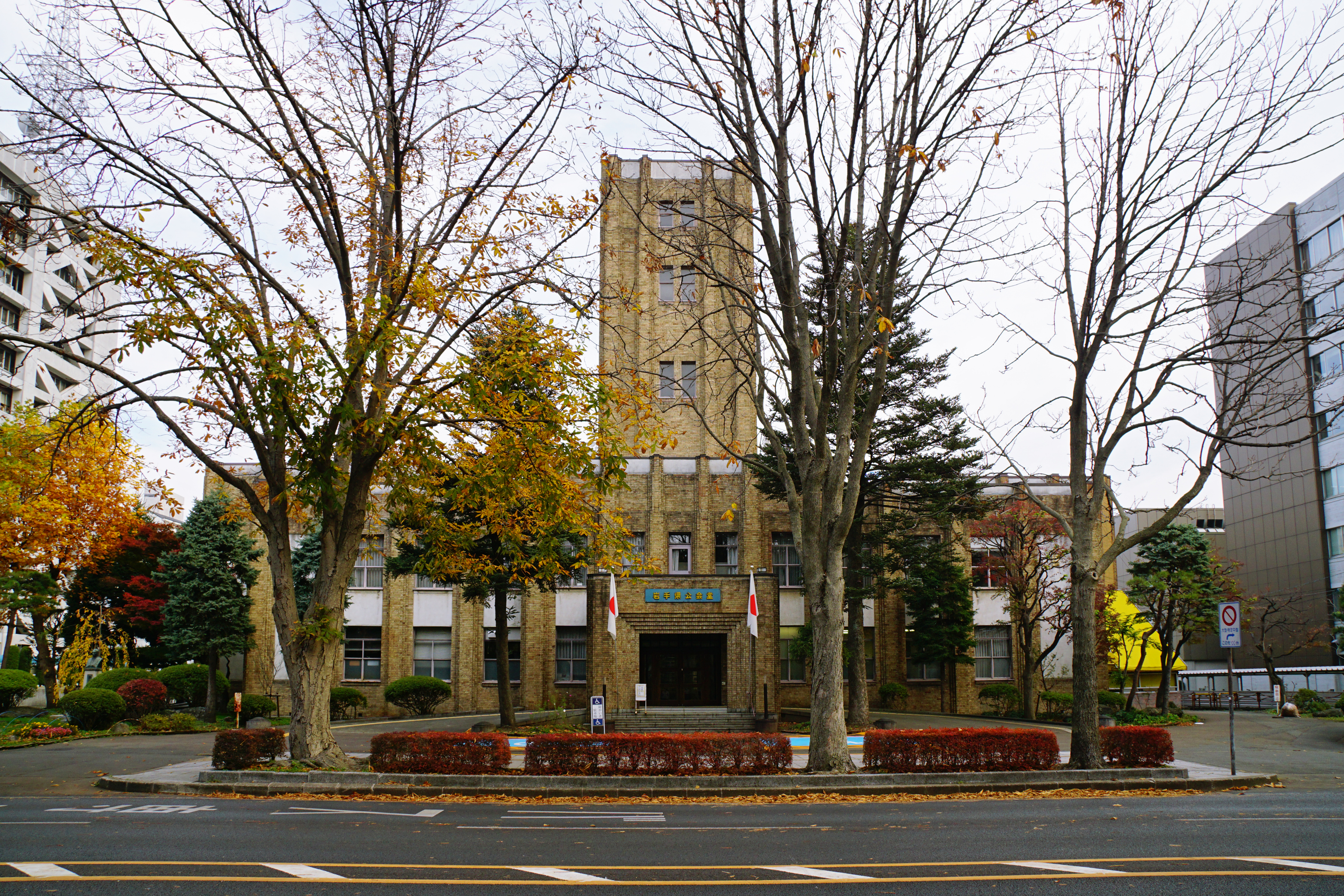 Iwate_Prefecture_Public_Hall in Morioka, Iwate prefecture, Japan